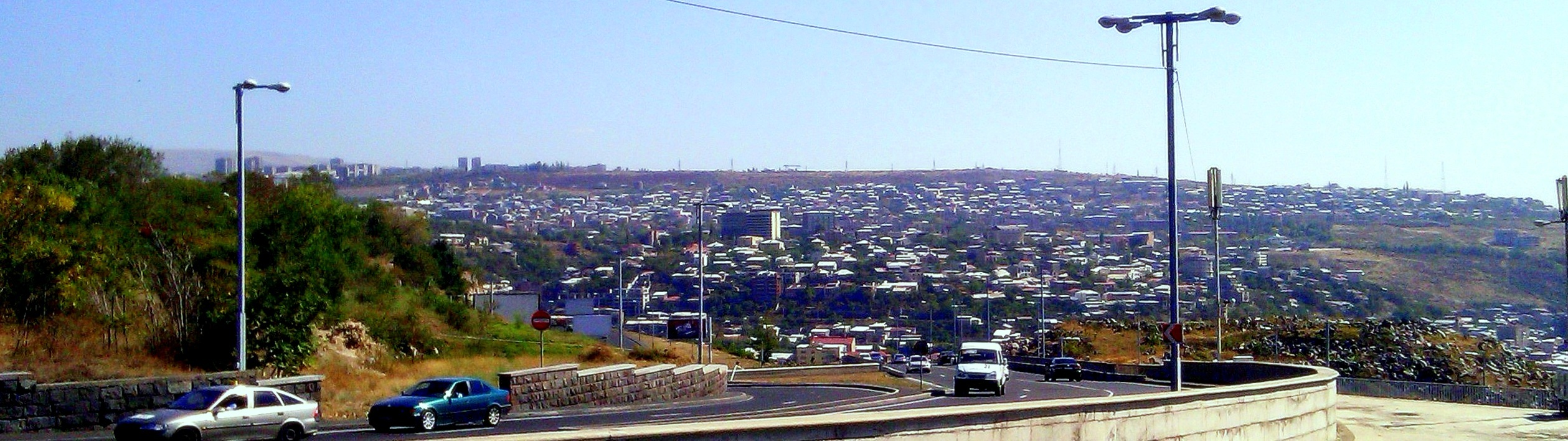 Nork-Marash district panoramic view, Yerevan, Armenia.